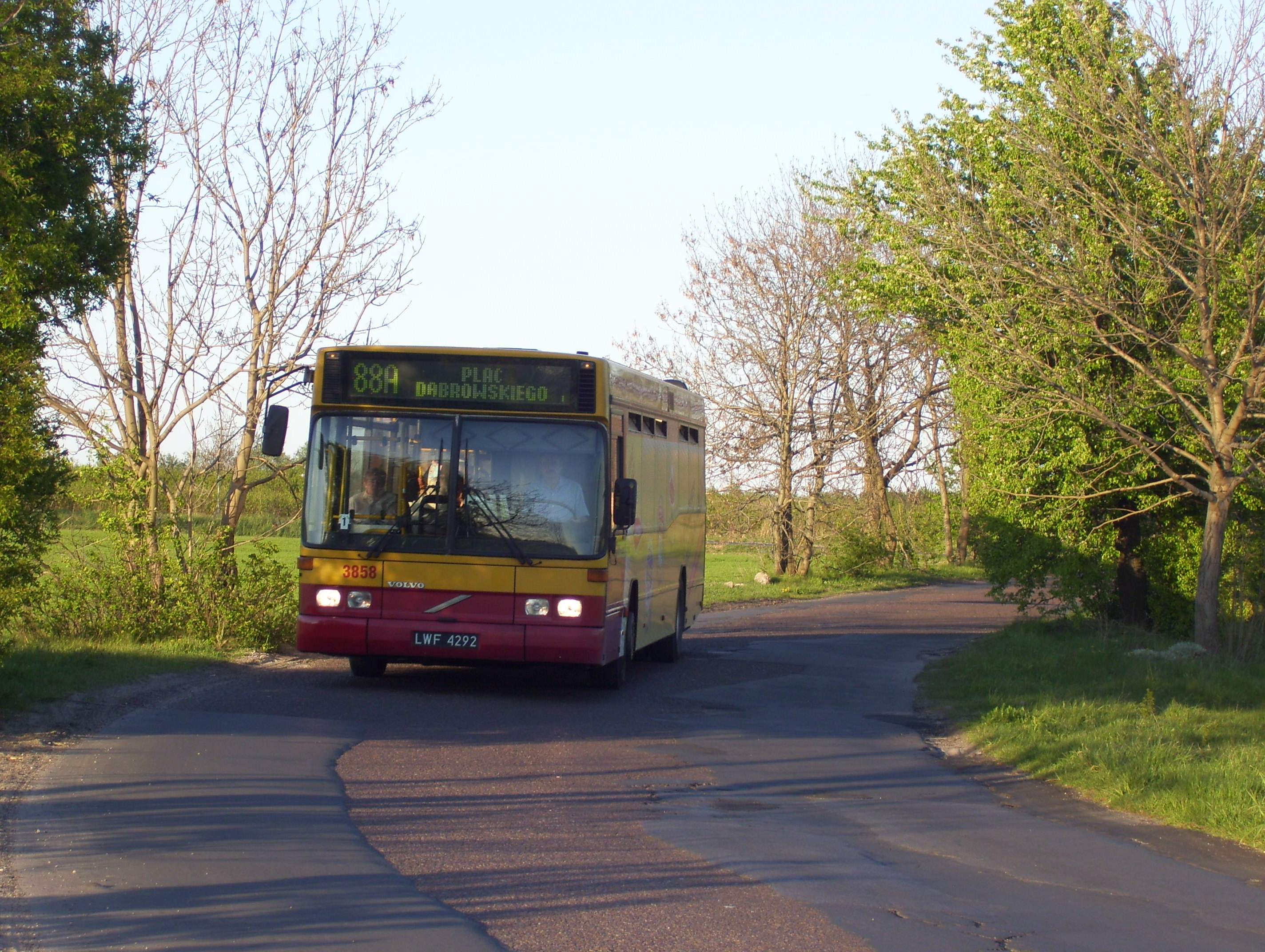 Volvo B10L bus (#3858, reg. LWF 4292) in Łódź, Poland. Built 1998 in Wrocław, MPK Łódź operator.